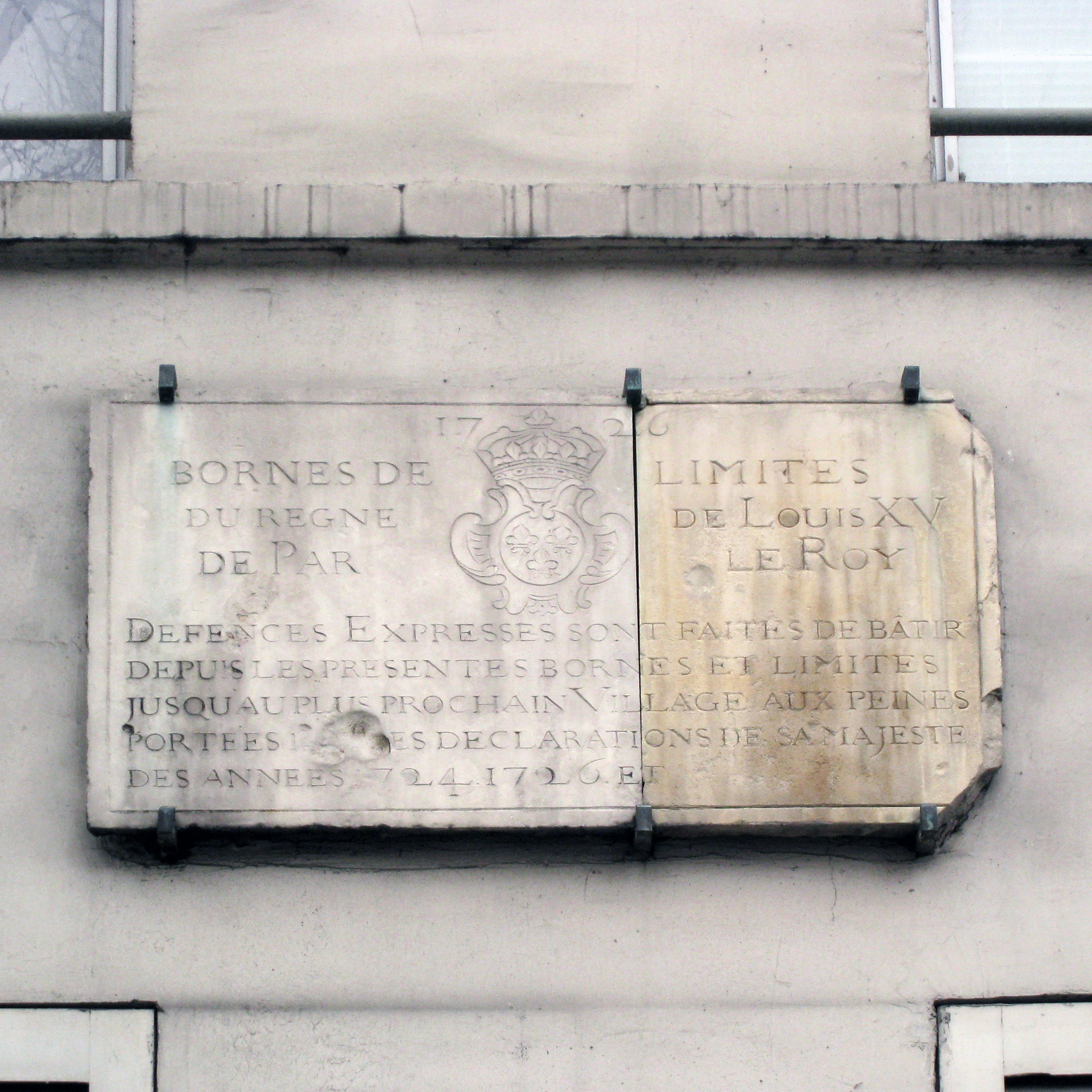 Plaque made in 1726 to mark the limits of Paris at that time; it is currently affixed at the 304, rue de Charenton in Paris. The text reads: "1726 - Bornes de limites du règne de Louis XV de par le Roy - Défences expresses sont faites de bâtir depuis les présentes bornes et limites jusqu'au prochain Village aux peines portées par les déclarations de sa majestée des années 1724 - 1726".